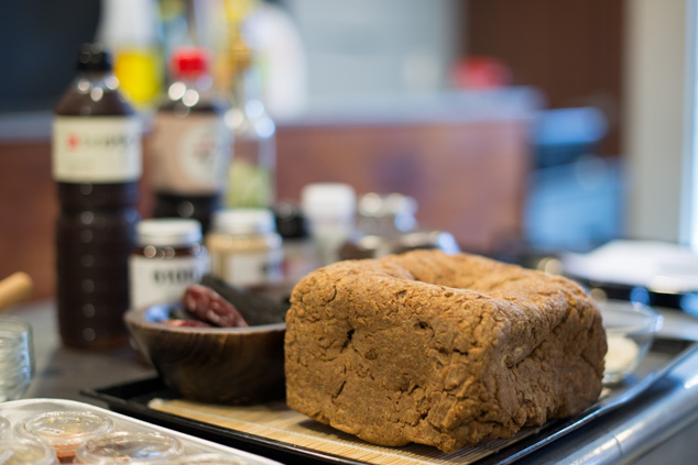 Dried meju (soybean block)